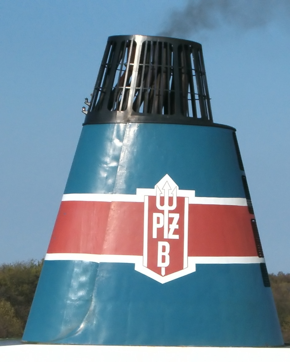 Funnel of FS Scandinavia (Polferries)